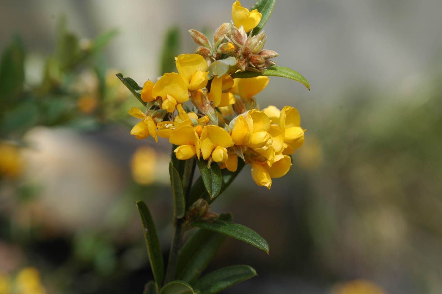 Golden yellow pea flower in the dense terminal cluster.